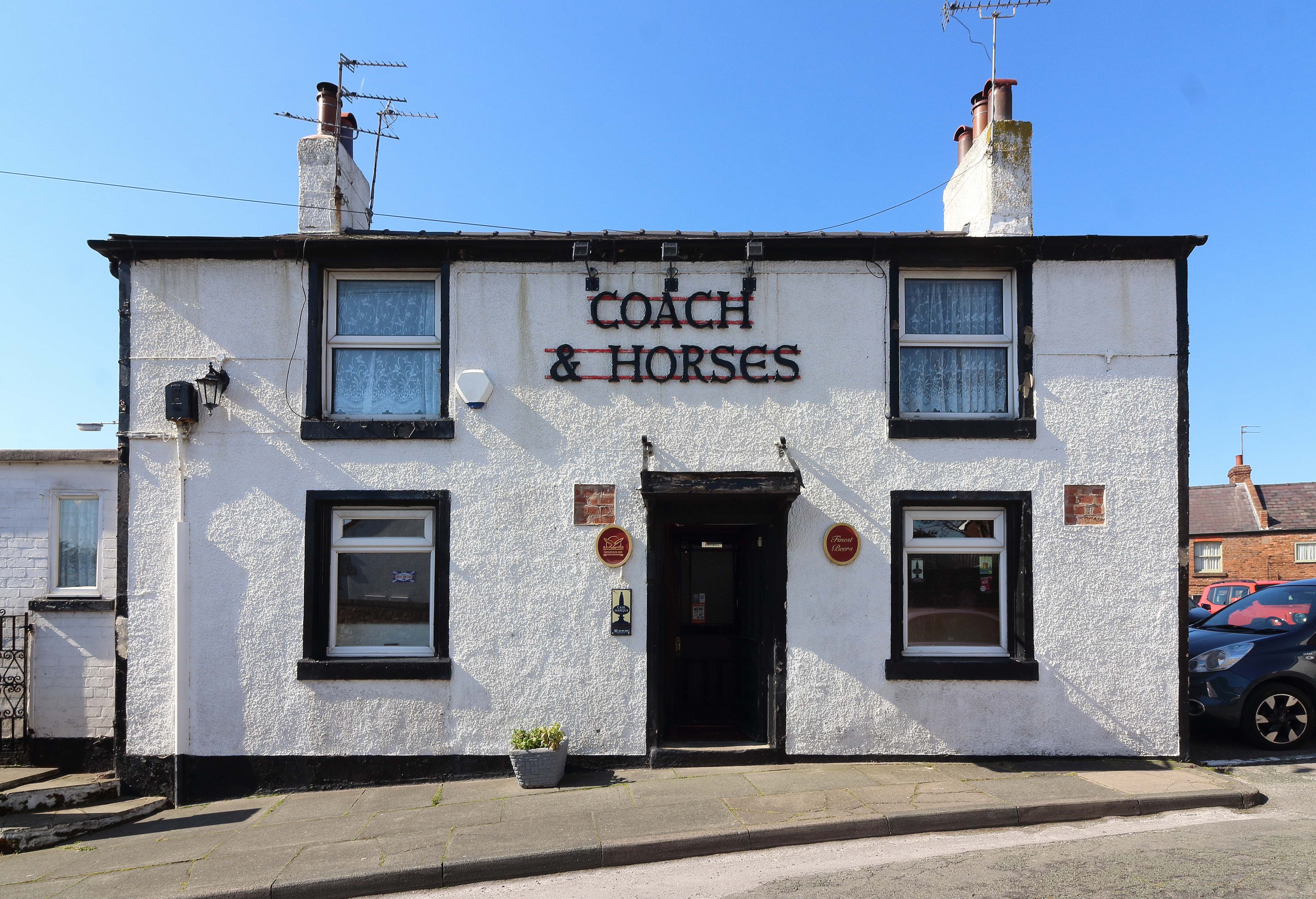 Frontage of the oldest pub in Greasby, the Coach & Horses.